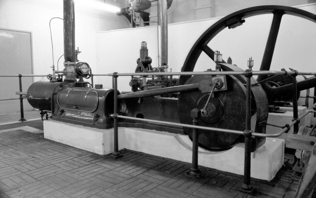 Steam engine, Low Hall Depot Now a museum, this was originally a sewage pumping station with adjoining refuse destructor to produce steam from burning domestic waste. Twin cylinder engine built by Marshall in 1896-7